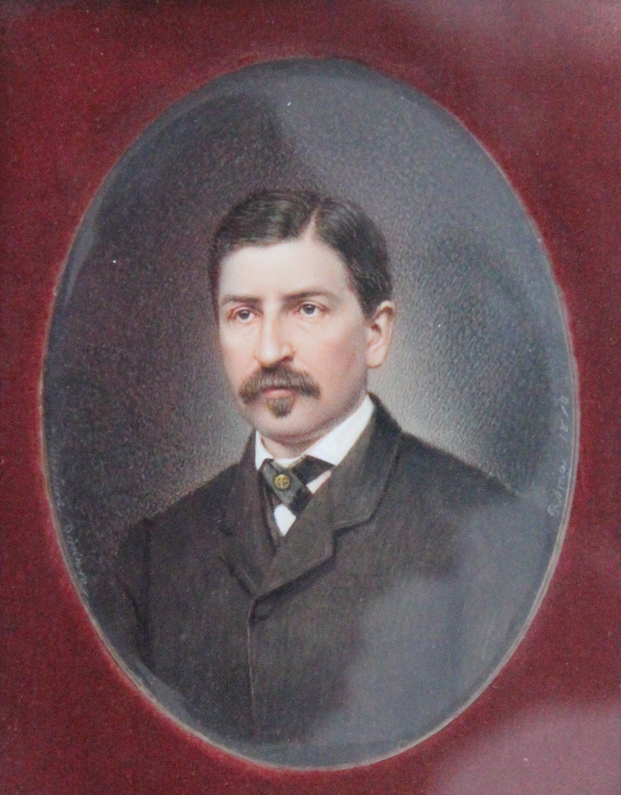 Portait of Augusto Castellani (1890s)